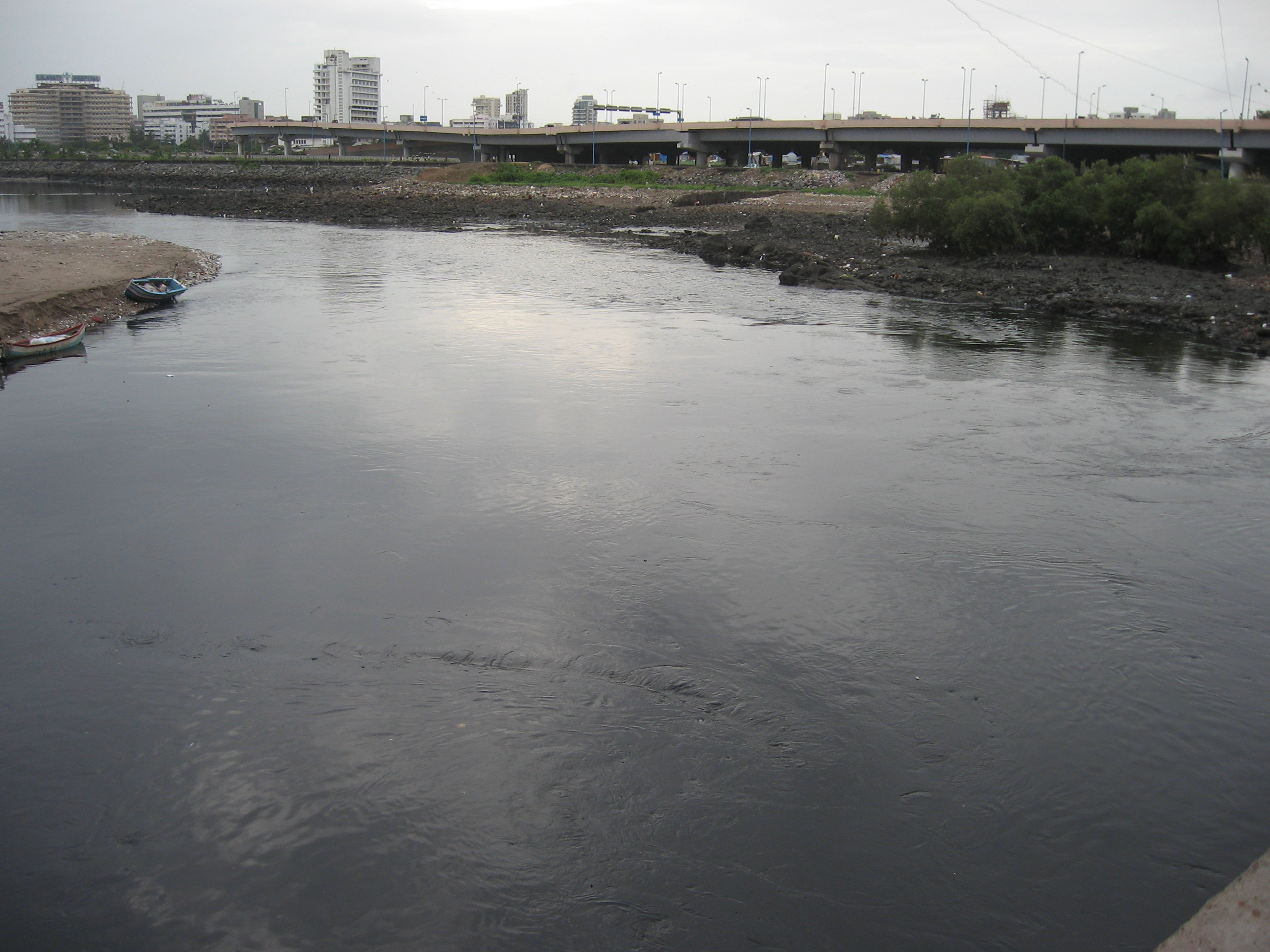 Mahim Creek, a tidal creek that the Mithi River opens into in Mahim, Mumbai